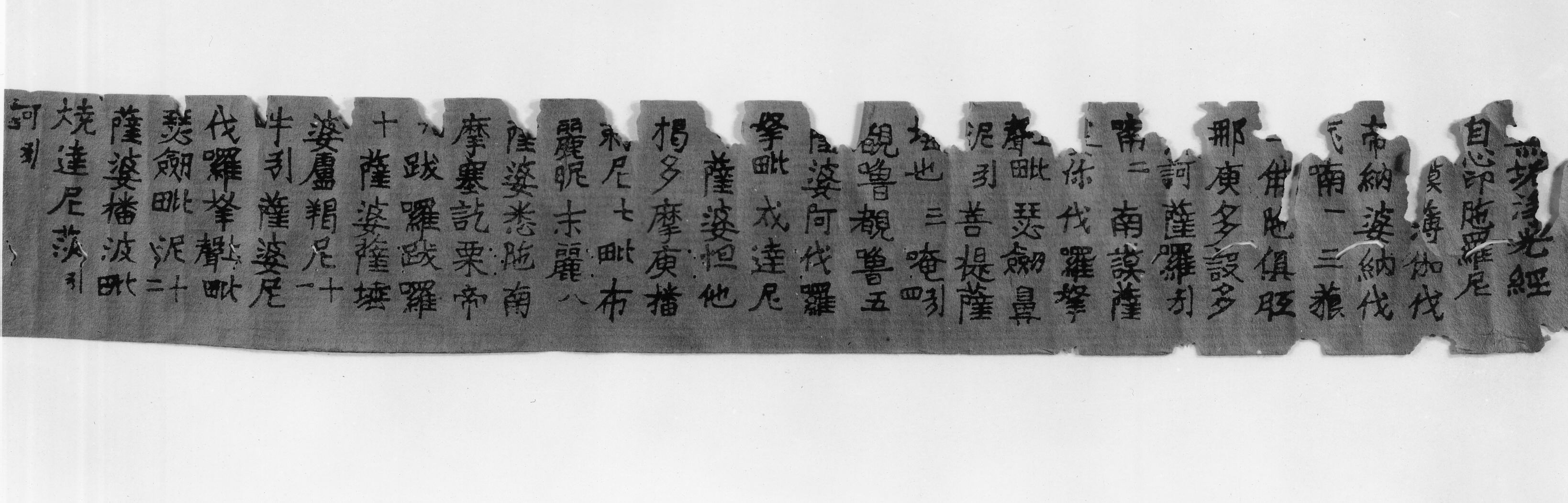 Japan; Stupa containing prayer roll; Sculpture